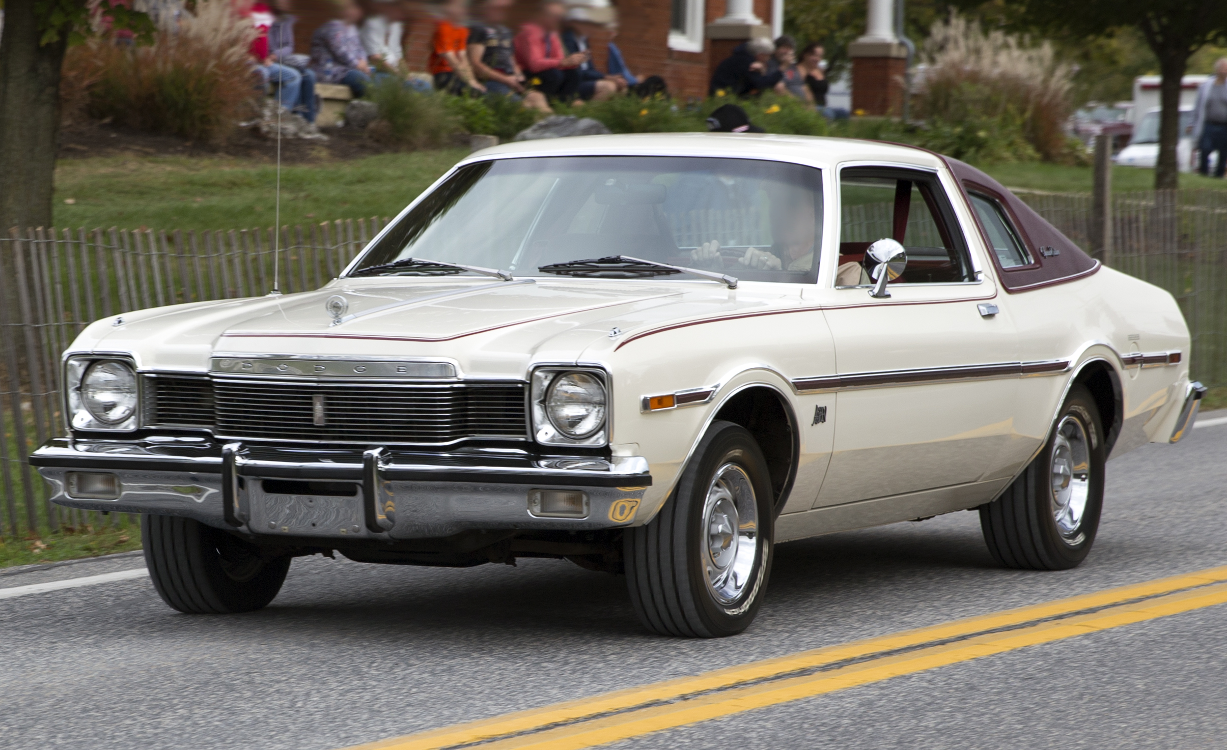 1976 Dodge Aspen Coupe Special Edition leaving Hershey 2019.